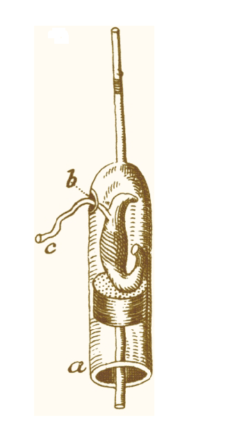 An illustration in Jan Swammerdam's book of a muscle preparation using the thigh muscle of a frog in one of his experiments